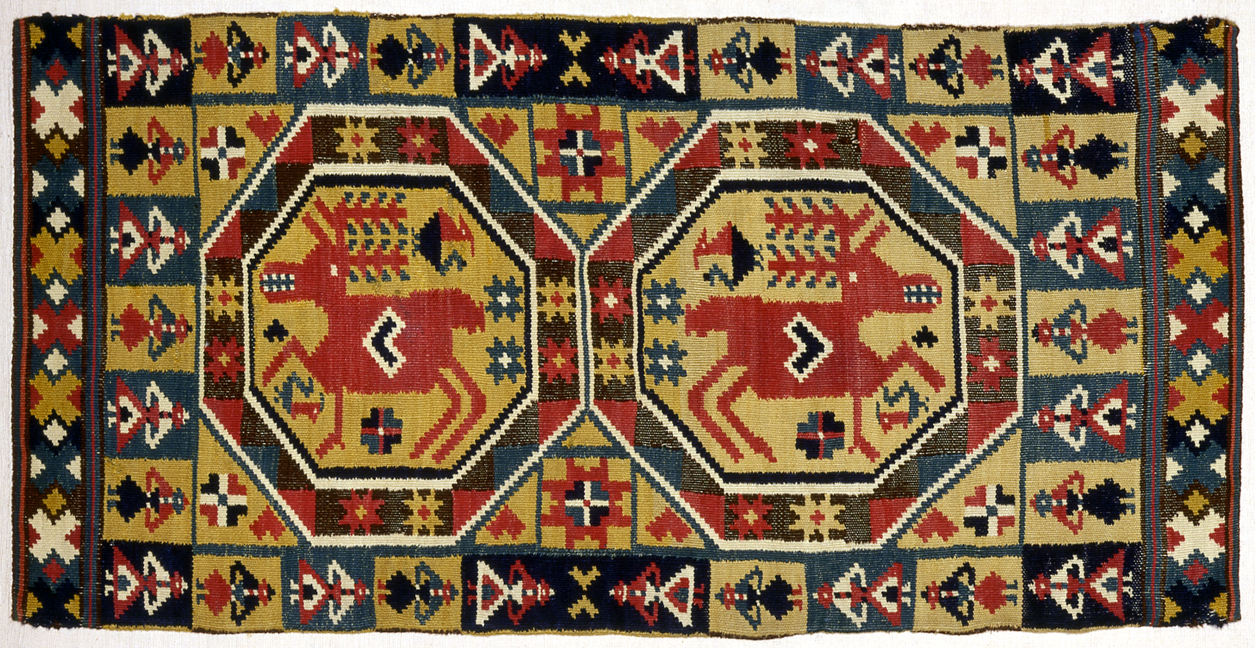 Carriage Cushion Cover (Two Reindeer in Octagons with People) Accession number SW 32 Ingelstads or Herrestads district, Scania, Sweden. first half of the 19th century. interlocked tapestry, 52 x 105 cm. From the Khalili Collection of Swedish Textiles